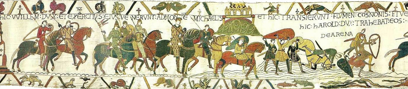 Bayeux Tapestry Scene 16 and 17 with Mont St. Michel